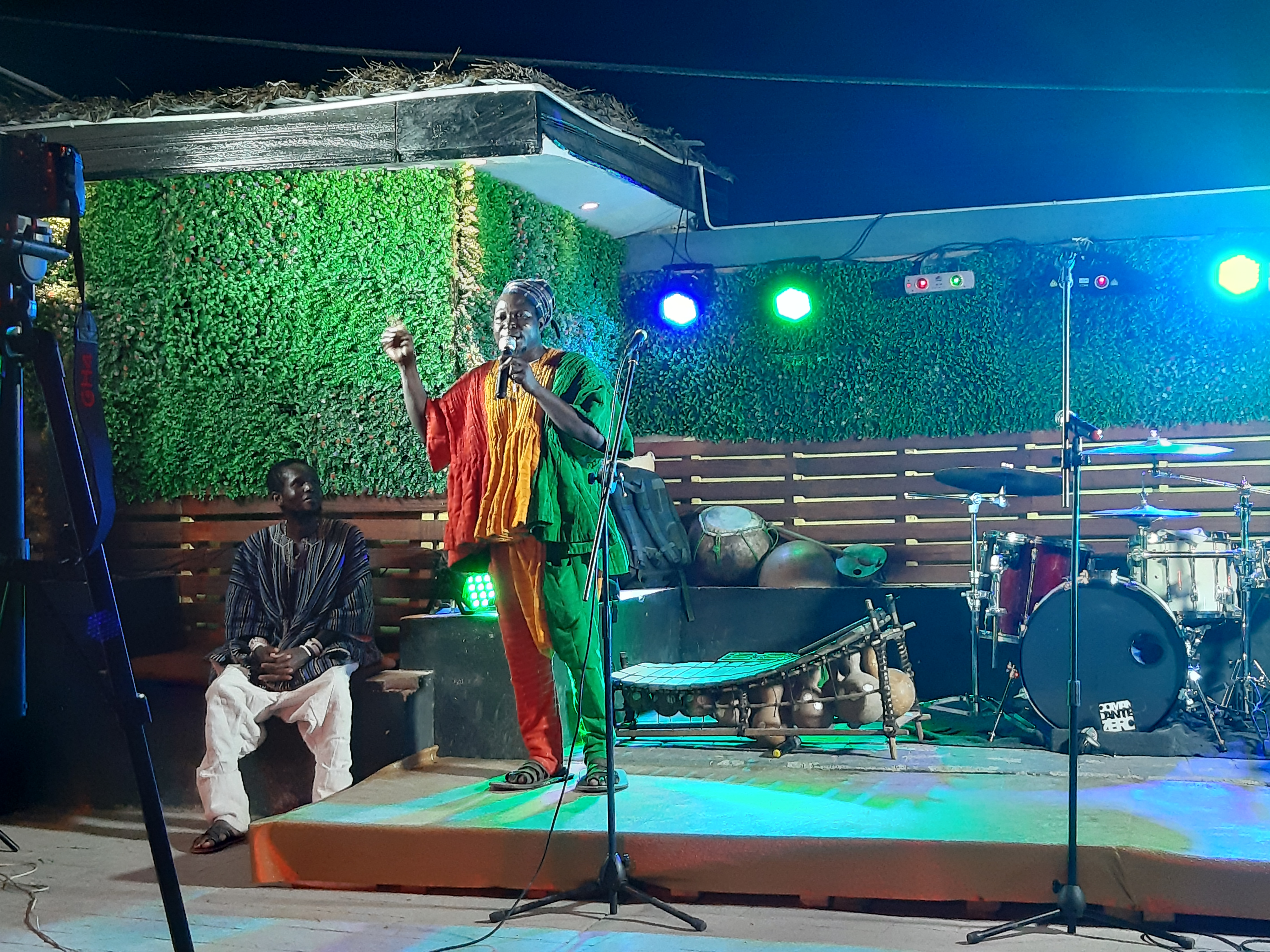 King Ayisoba at his 2020 Batakari festival March 2020 at Kona bar Osu Oxford street.